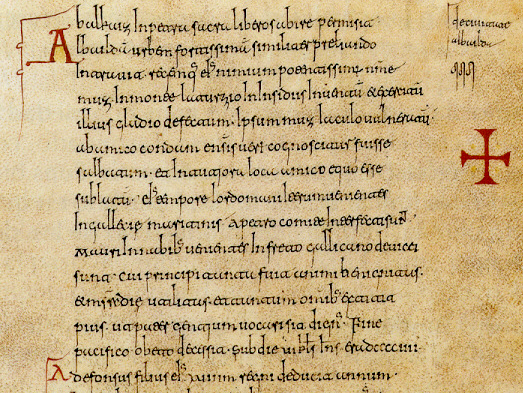 Crónica albeldense, manuscript dated IX Century (folio 241)